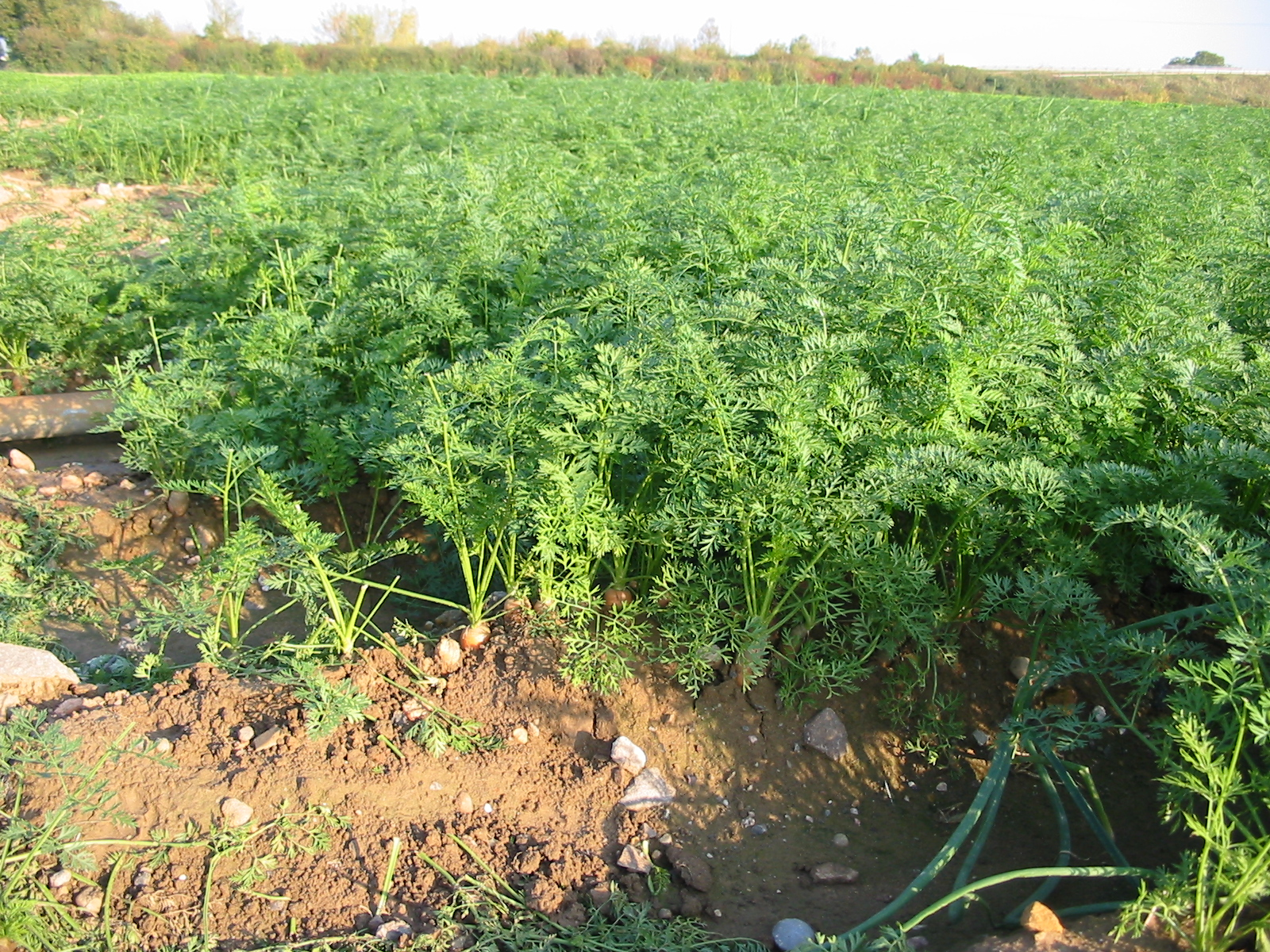 Field of carrots in Haßloch (Pfalz), Germany